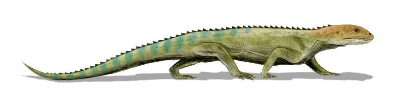 Mesosuchus browni, a rhynchosaur from the Early Triassic of South Africa, pencil drawing